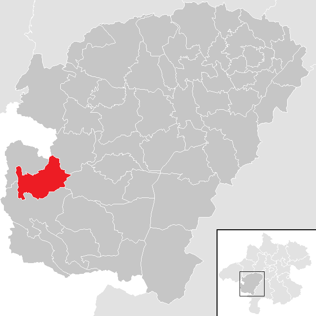 District Vöcklabruck